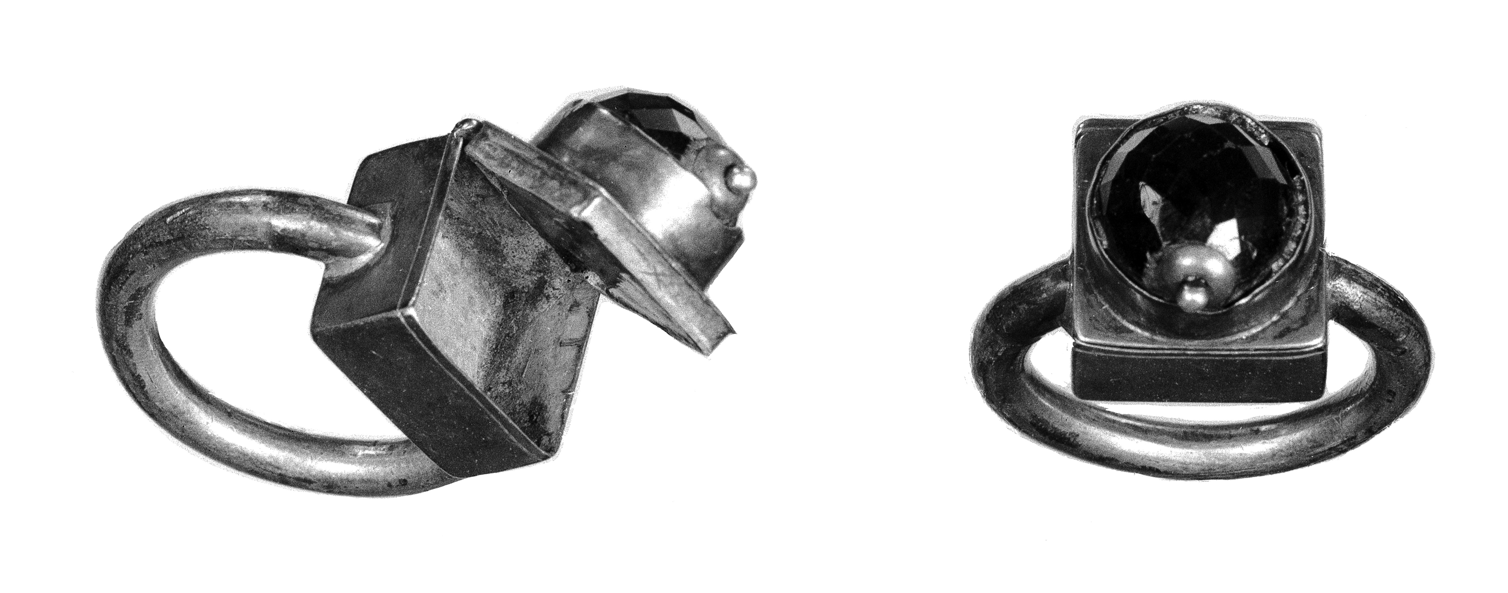 Ring with large container surmounted by a cut stone. Similar in principle to the so-called poison-rings, but probably for holding a text from the Koran. Persian or Arabic. Wellcome Images Keywords: Religion; Pharmacy